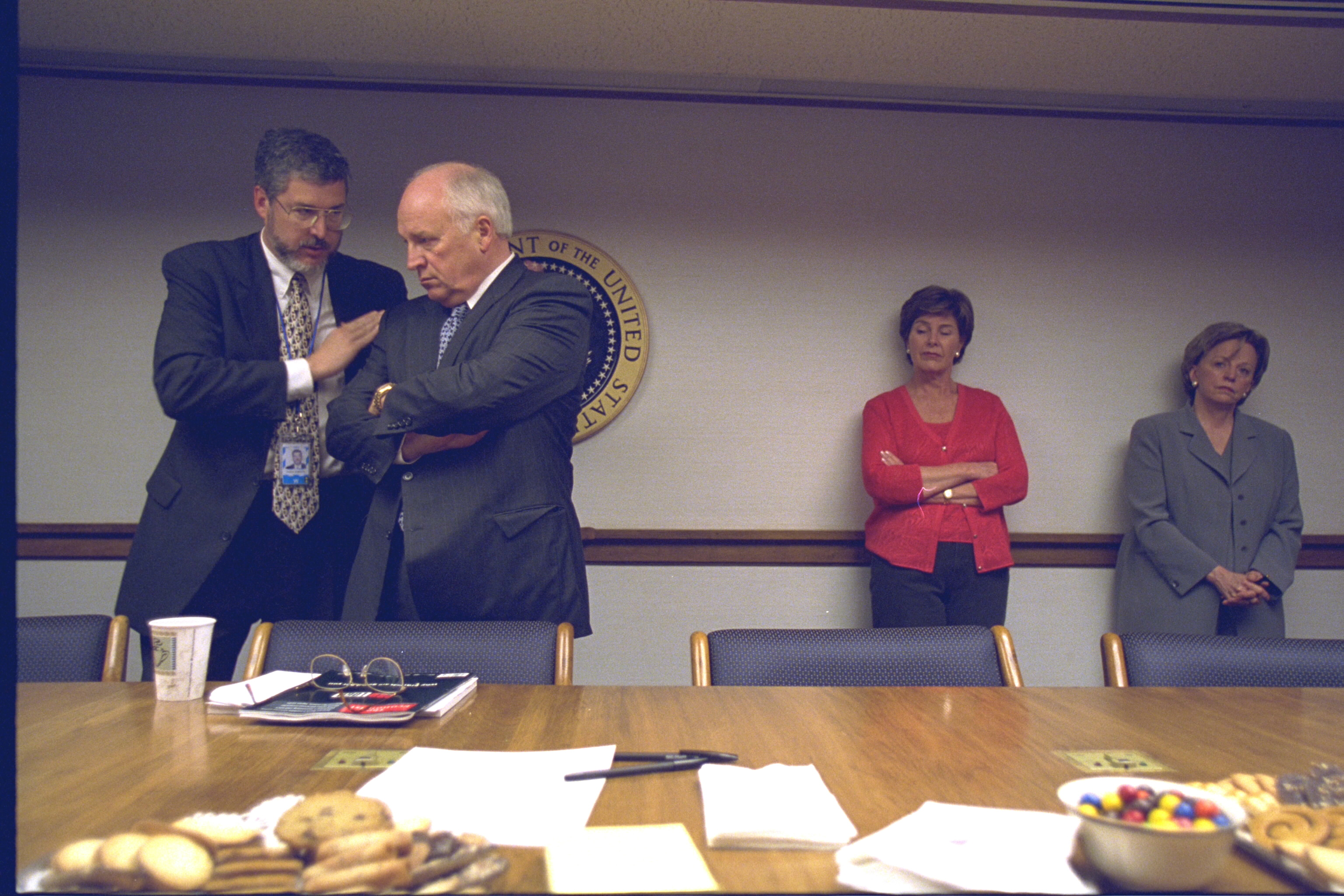 These images have been released in response to a FOIA request, case number 2014-0012-F, received by the National Archives. For more information on these images, please visitResearching Vice Presidential Materials. These photos will be available in the National Archives Catalog in July 2015. Local Identifier: V1562-24 Created By: President (2001-2009 : Bush). Office of Management and Administration. Office of White House Management. Photography Office. 1/20/2001-1/20/2009 From: Collection: Vice Presidential Records of the Photography Office (George W. Bush Administration), 1/20/2001 - 1/20/2009 Contact: Presidential Materials Division (LM) National Archives Building 7th and Pennsylvania Avenue NW Washington, DC 20408 Phone: 202-357-5200 Fax: 202-357-5939 Production Dates: 9/11/2001 Persistent URL: Access Restrictions: Unrestricted Use Restrictions: Unrestricted